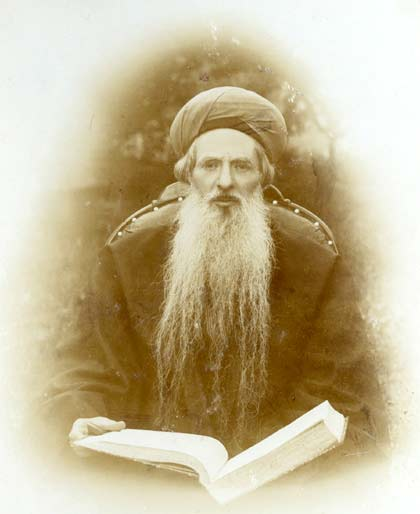 Krymchak, Turkic speaking Crimean Jew from southern Ukraine (once Crimean Khanate, a vassal state of Ottoman empire). Early 20th century. Chaim Hezekiah Medini